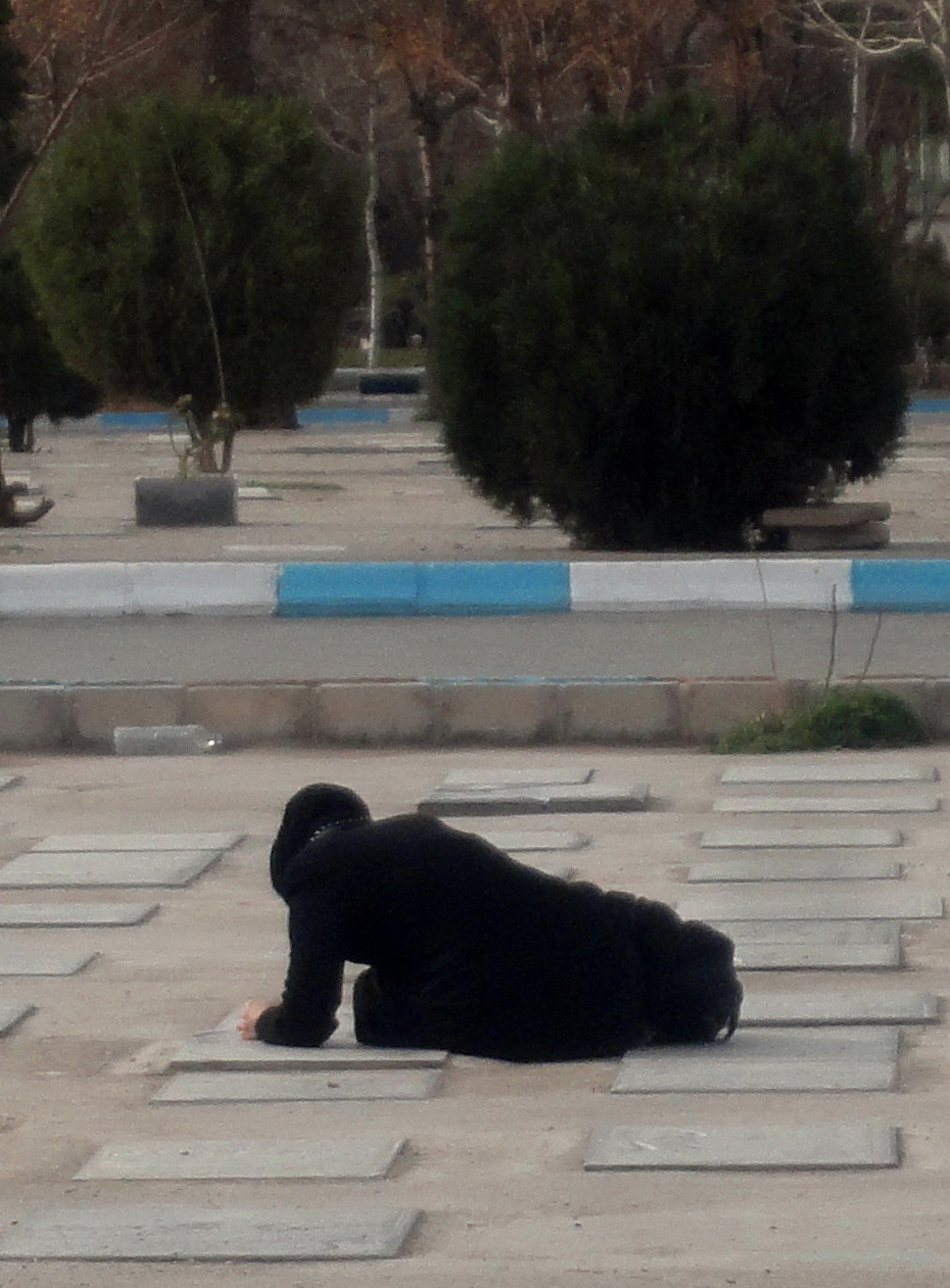 Lonely & Prostrate-Father Orphan- Daughter Deeply Mourning for her died Father- Fazl Cemetery-Nishapur,Iran,March 2016